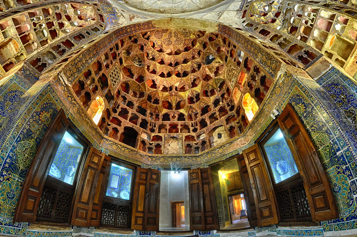 Sheikh Safi-al-Din Khānegāh and Shrine Ensemble